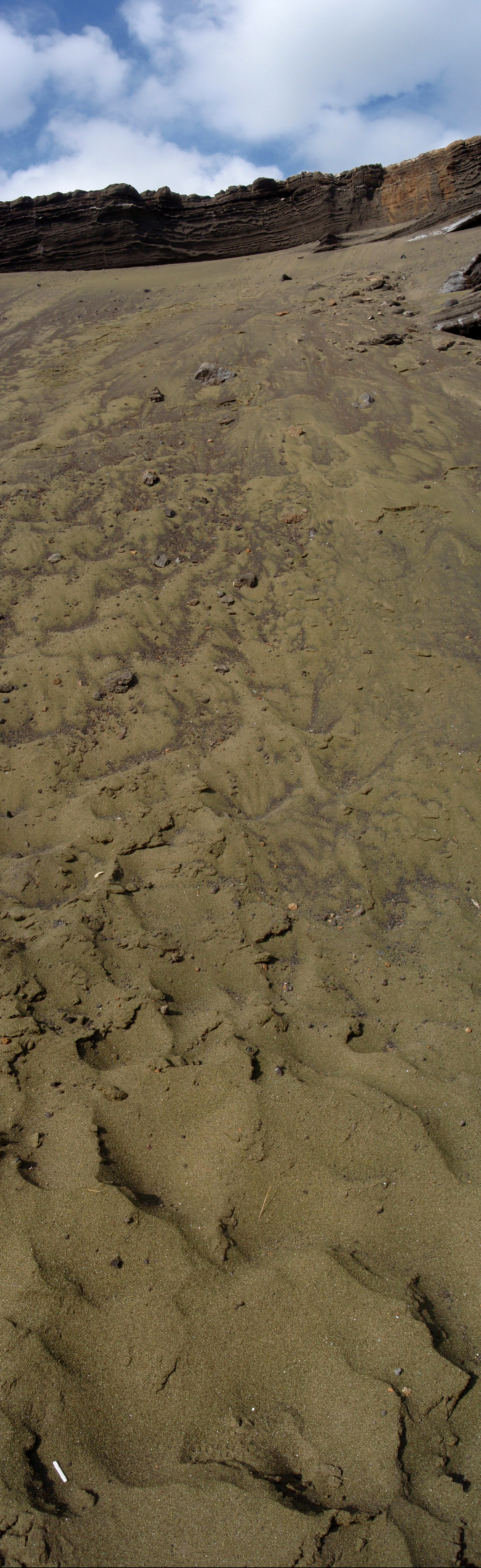 Vertical panorama of the partially collapsed cinder cone found at Papakolea Beach on the Big Island of Hawaii. The cinder cone is rich in the mineral olivine, which lends a green color to the sand.